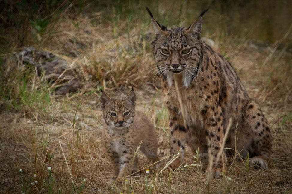 Iberian Lynx adult with cub from the Program Ex-situ Conservation in 2011